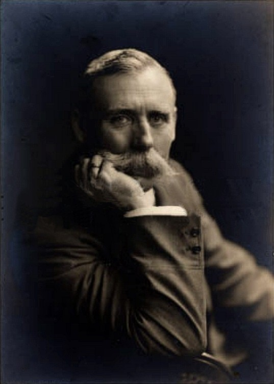 Portrait of photographer James Booker Blakemore Wellington (1858-1939). Wellington worked with George Eastman in New York during the 1880s. Returning to England he became a director of Kodak, and later set up his own photographic materials company, Wellington & Ward.